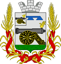 Coat of arms of Vyazma (1859-1863)